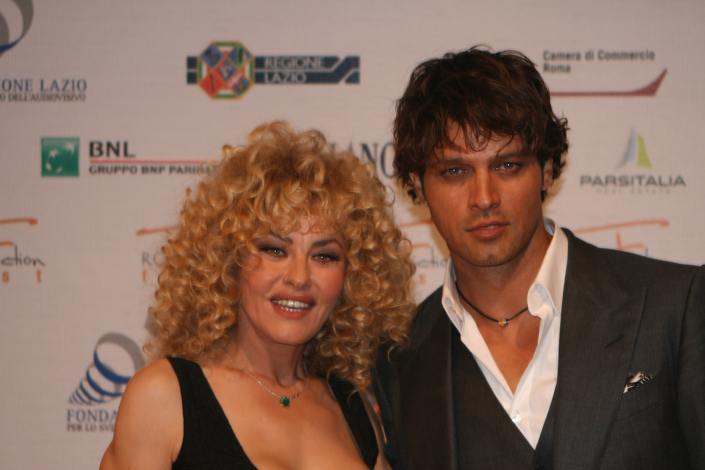 Eva Grimaldi and Gabriel Garko, Italian actors